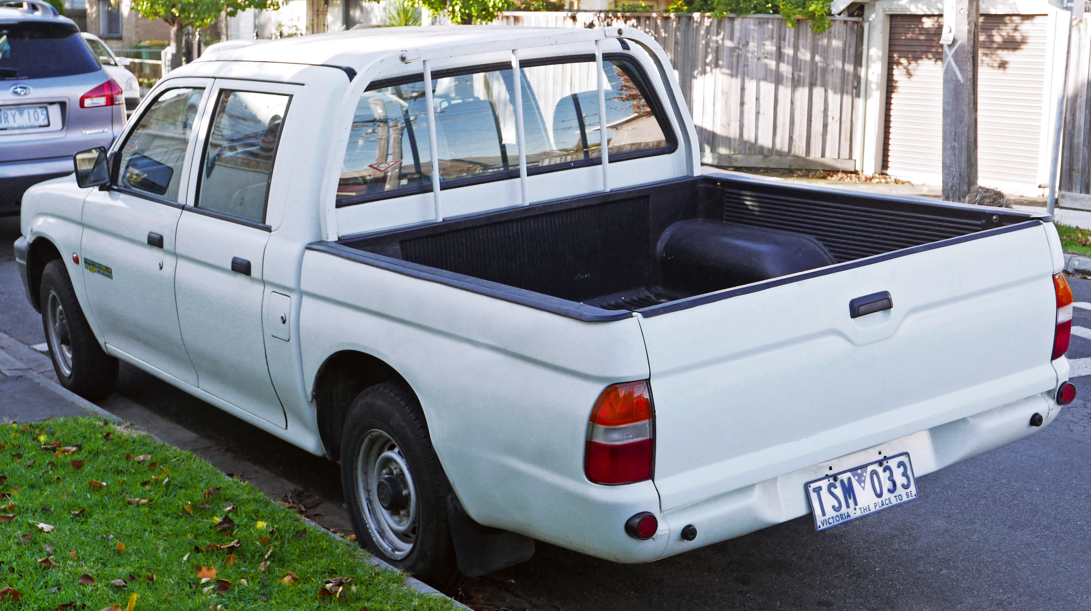 1999 Mitsubishi Triton (MK) GLX 4-door utility. Photographed in Northcote, Victoria, Australia. Vehicle registration enquiry results Jurisdiction Victoria Registration TSM033 Chassis code MMBJNK650XD019756 Engine code 4G64AA6675 Compliance date 1999-01 Year of manufacture 1999